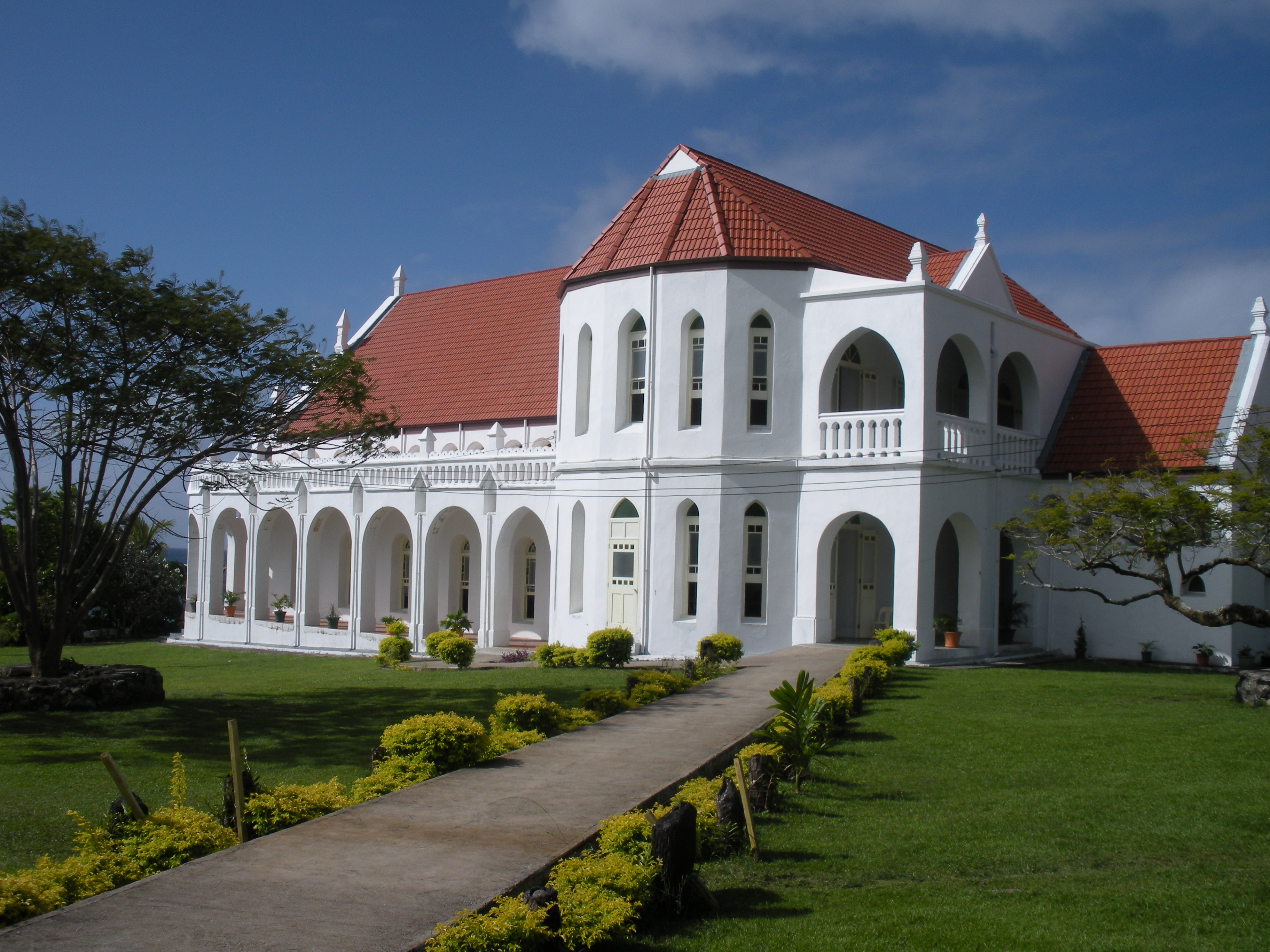 Piula Theological College (Methodist) on the north coast of Upolu island in Samoa, 2009 The monastery is situated above a small cliff with steps leading down to the Piula Cave pool by the sea. The pool is open to visitors.